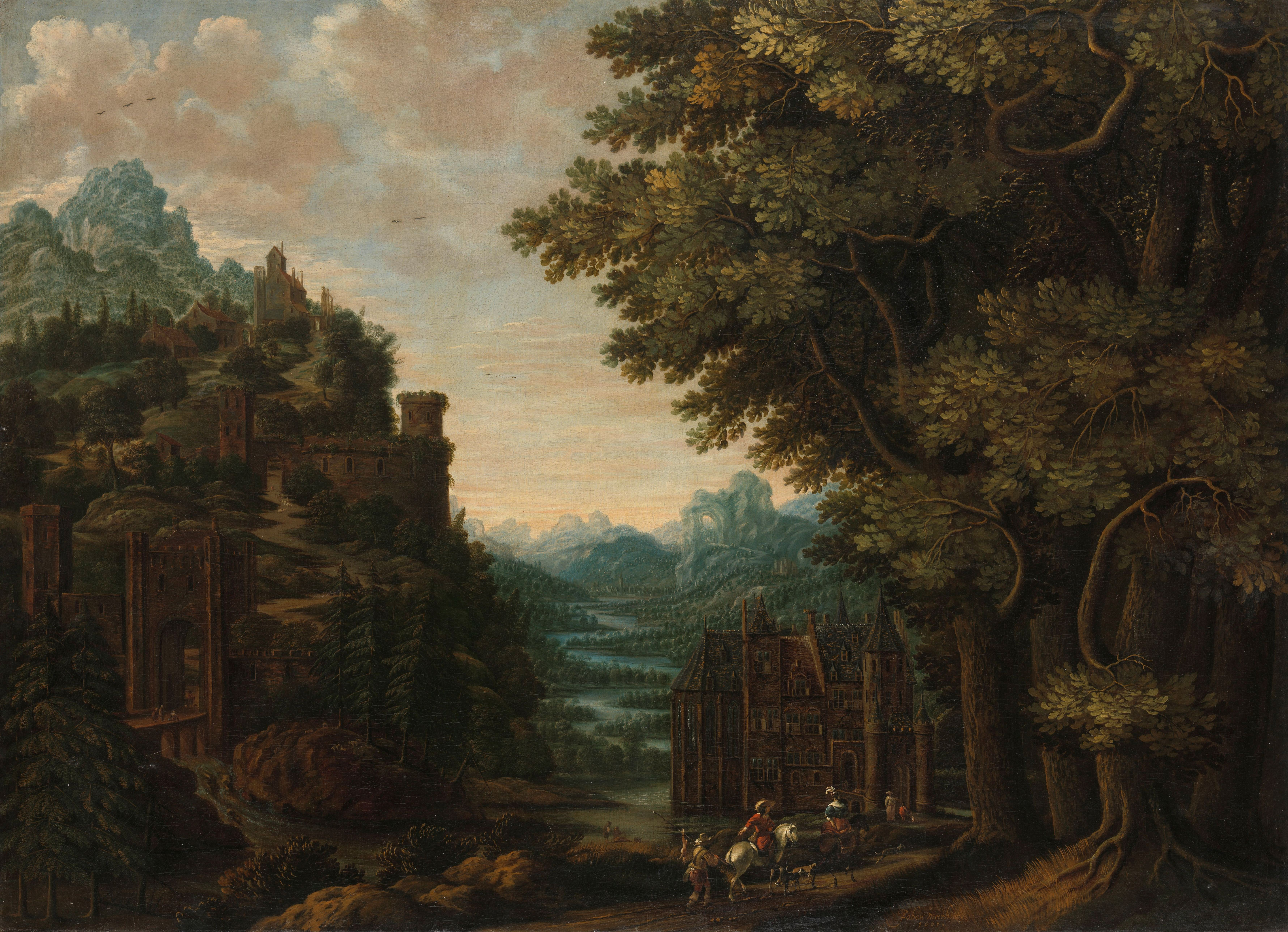 Fantasized mountainous landscape with river valley. To the right a number of travellers on a road are approaching a castle. To the left on the mountain slopes more castles are standing.